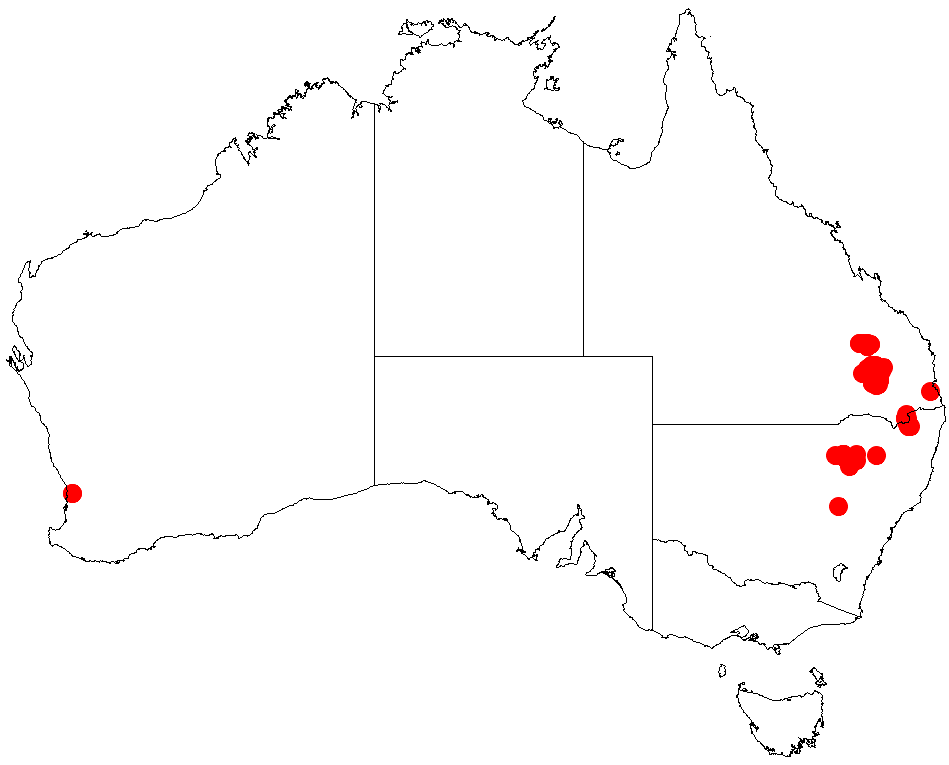 Acacia debilis occurrence data from Australasian Virtual Herbarium downloaded from on 8 December 2018